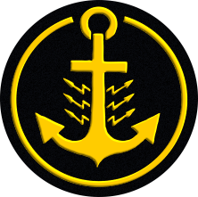 Navy Radio-telegraphist - career